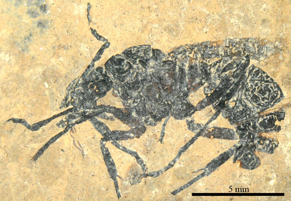 Cyrtopone striata holotype queen. Fossil preserved as a lateral impression. Specimen number SMFMEI1392